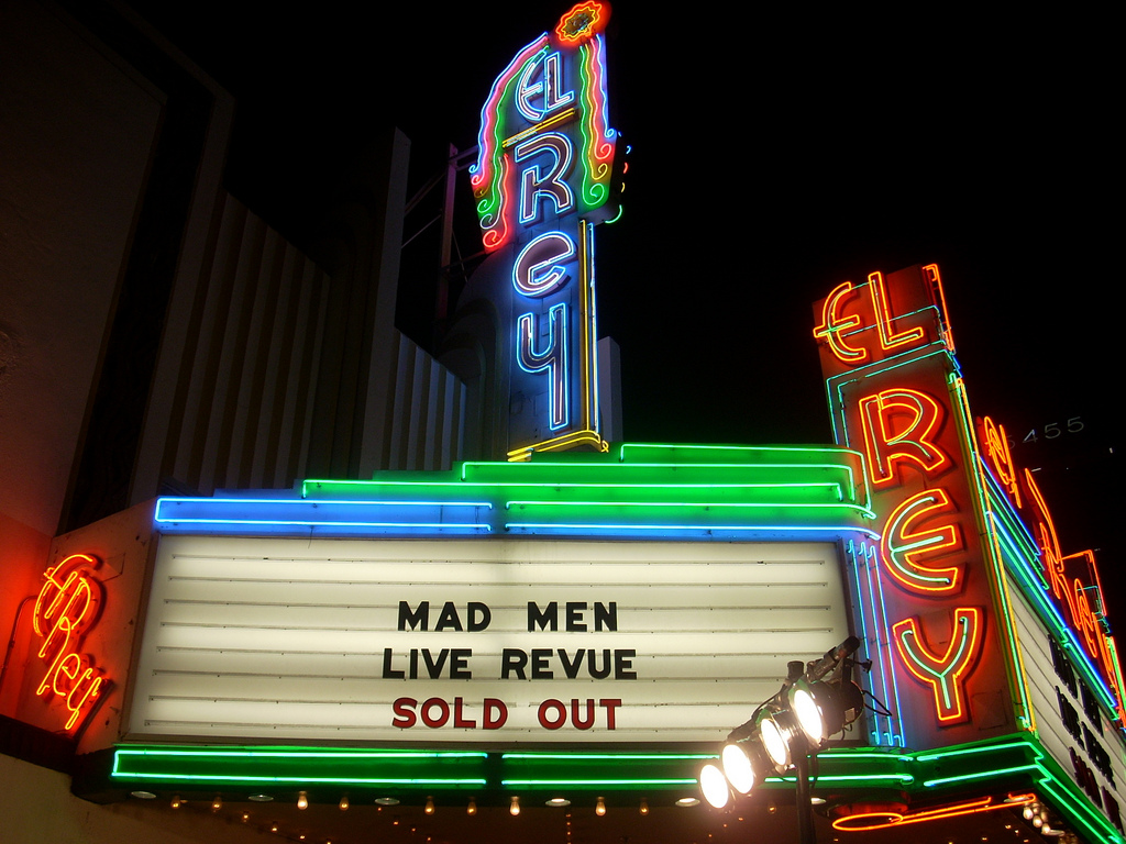 El Rey Theater in Los Angeles on Wilshire Blvd. Event marquee : Chivas Regal Presents a Night on the Town with "Mad Men".